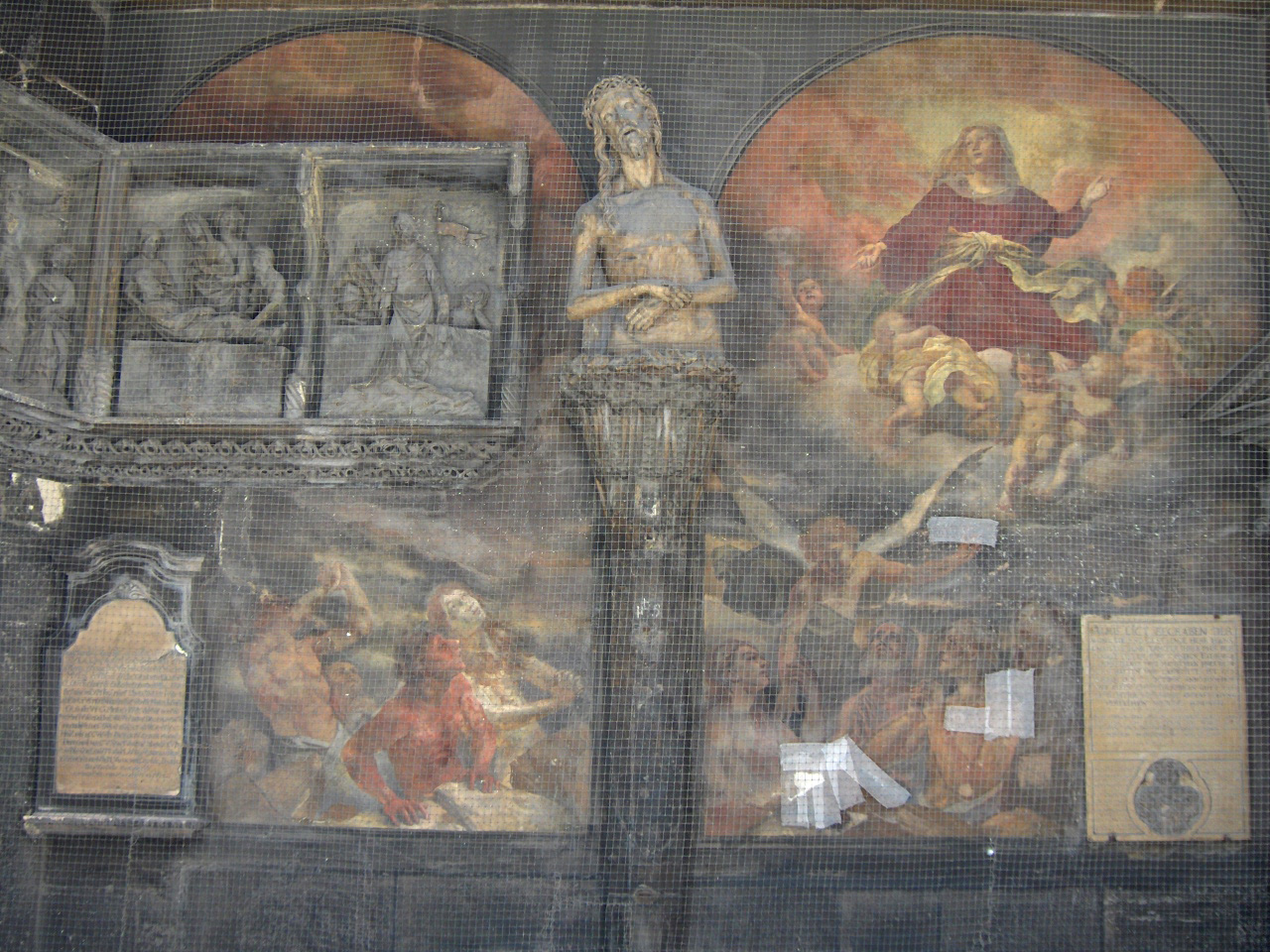 "Zahnweh-Herrgott" ("Christ with a toothache") at the back of the Stephansdom in Vienna, Austria